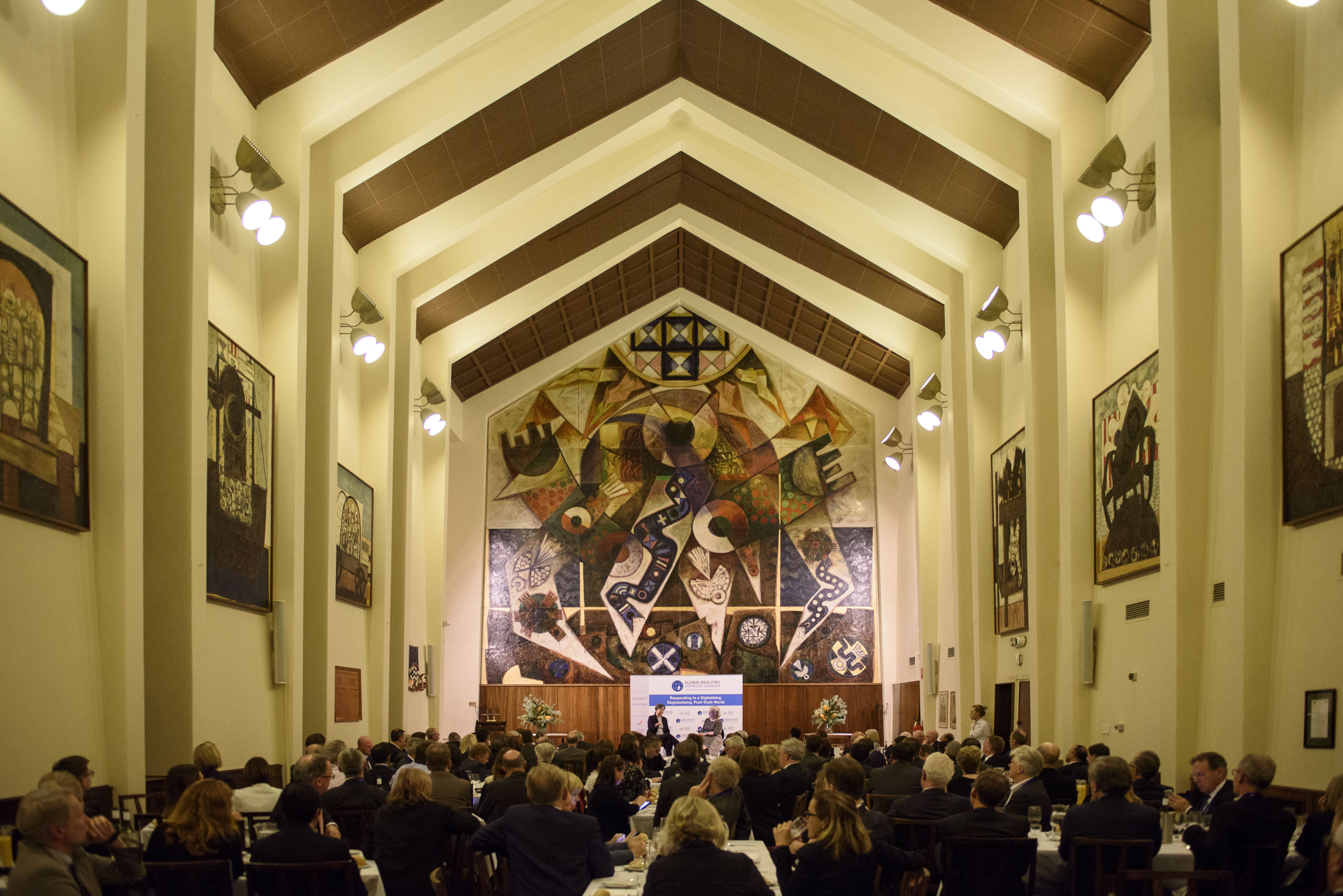 The Great Hall, University House, Australian National University